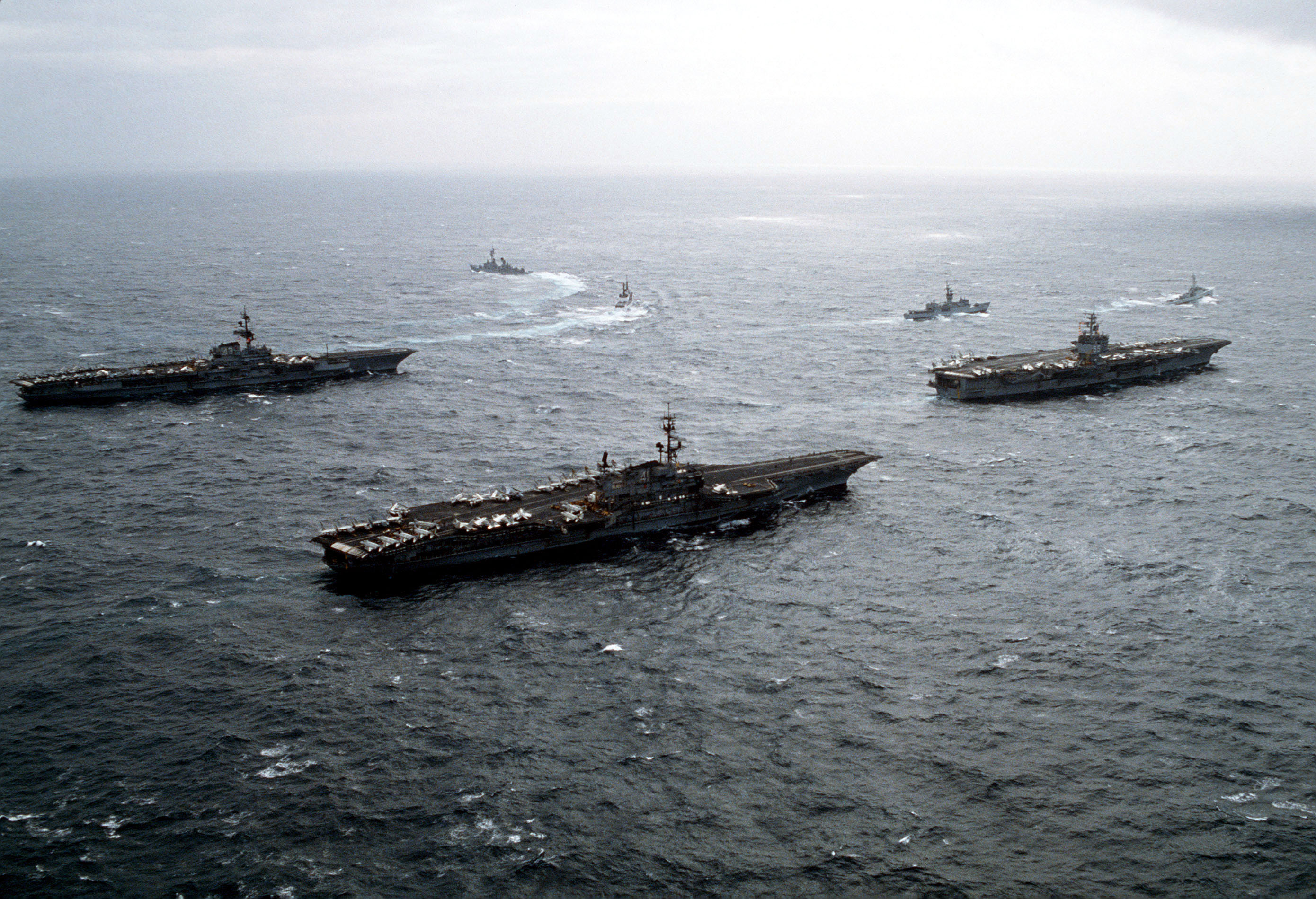 The U.S. Navy aircraft carriers USS Coral Sea (CV-43), left, and USS Midway (CV-41), center, and the nuclear-powered aircraft carrier USS Enterprise (CVN-65), right, underway during CINCPAC Exercise FLEETEX '83. The US Navy, Air Force, Coast Guard and the Canadian navy were participating in the exercise near the Aleutian Islands of Alaska.